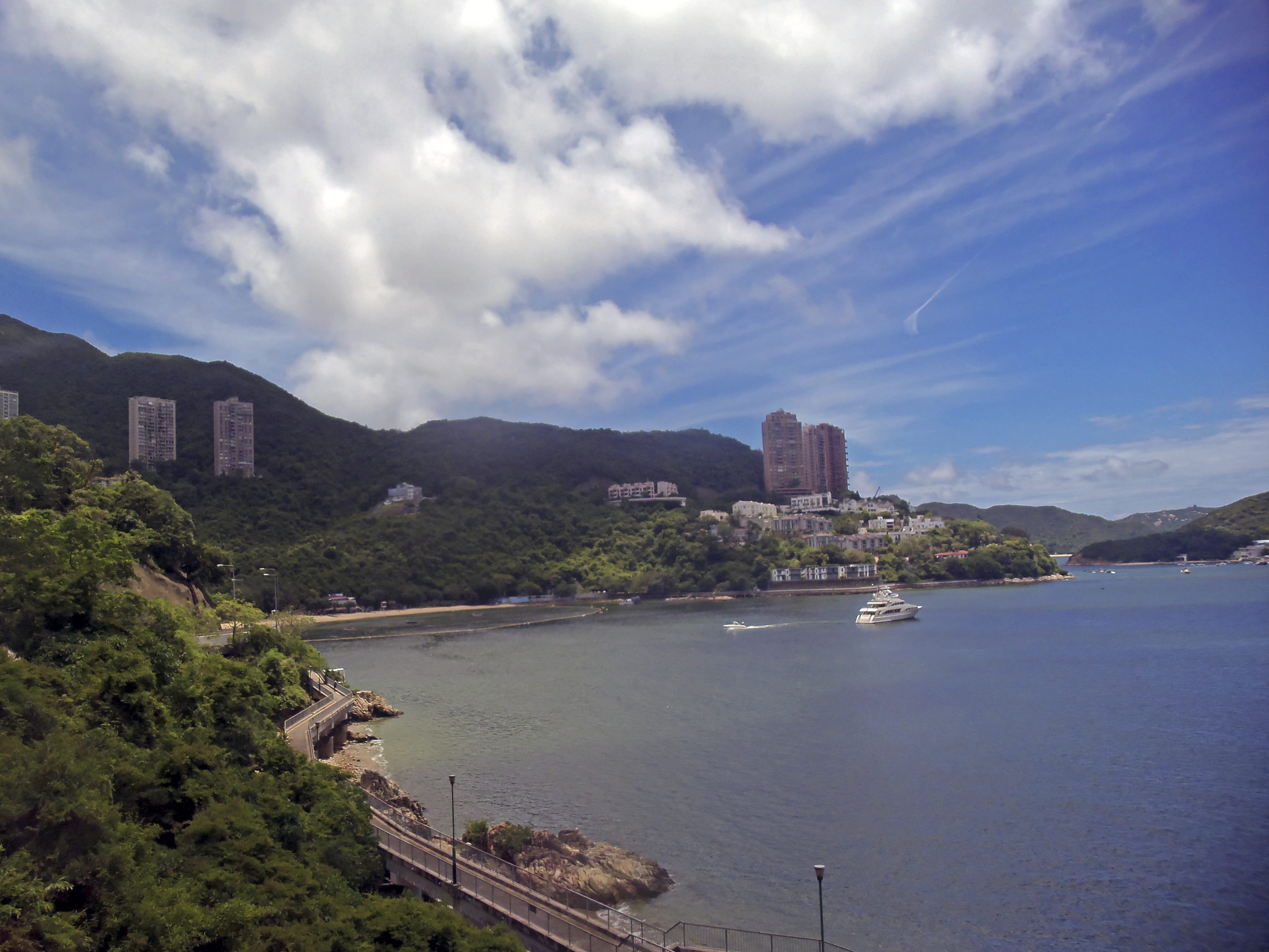 Deepwater Bay seen from the #260 bus going up Island Road, with Middle Island in the distance